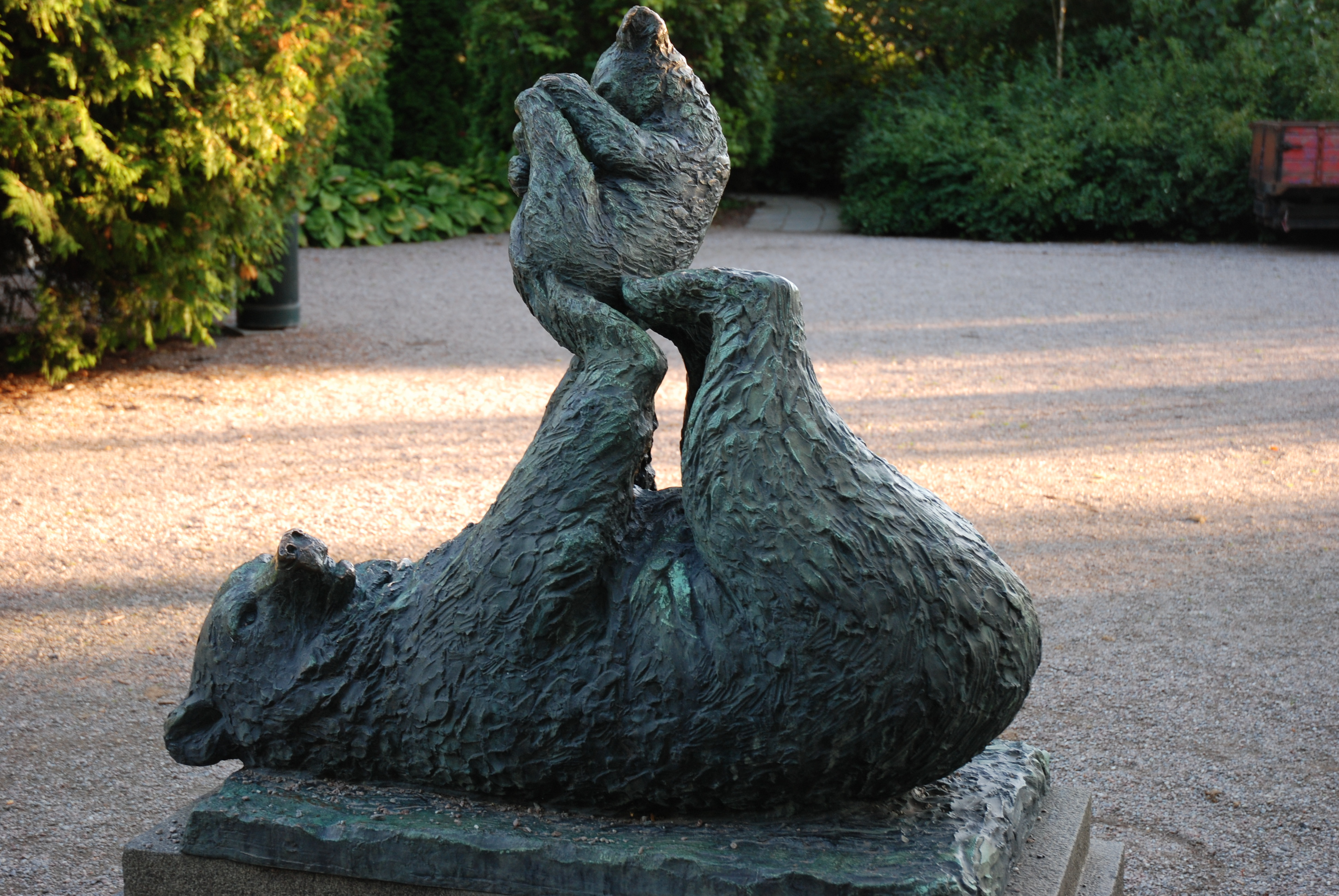 Gustav Vigelands Lekande björnar i Marabouparken i Sundbyberg